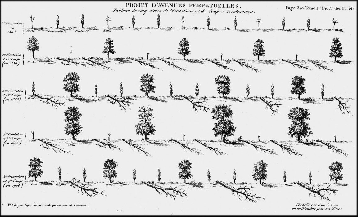 "Avenue project" (only one side is shown here), by Jacques-Joseph Baudrillart (1827) in "General Treaty of water and fortêts, hunting and fishing, consisting of a collection of forest reglemens, a dictionary of water and forests of a dictionary of hunts and a dictionary of fisheries. "In this alignment, the author proposes to cut some trees every 30 years, which keeps the landscape alignment, and sustainable wood resource.